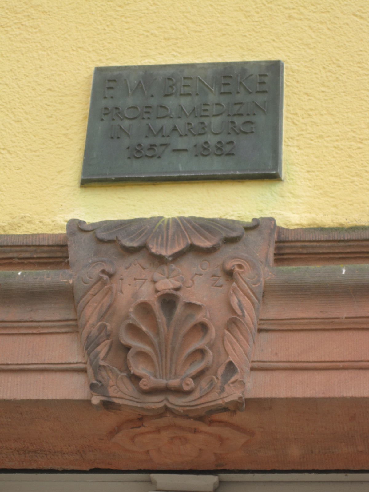 Plaque for Friedrich Wilhelm Beneke (1824-1882), german academic physician, at his former house Am Plan 3 in Marburg.